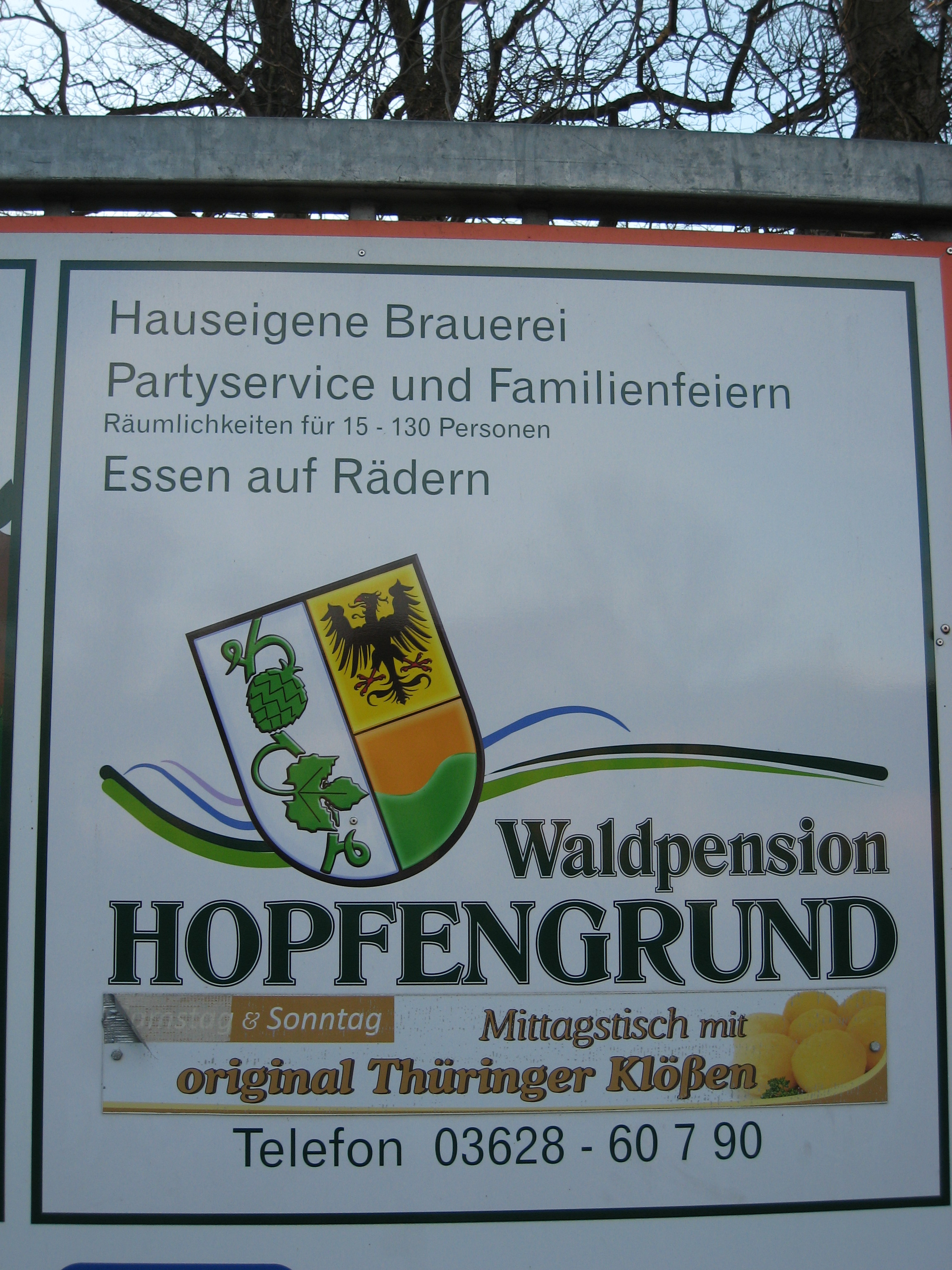 Gasthof Hopfengrund Arnstadt